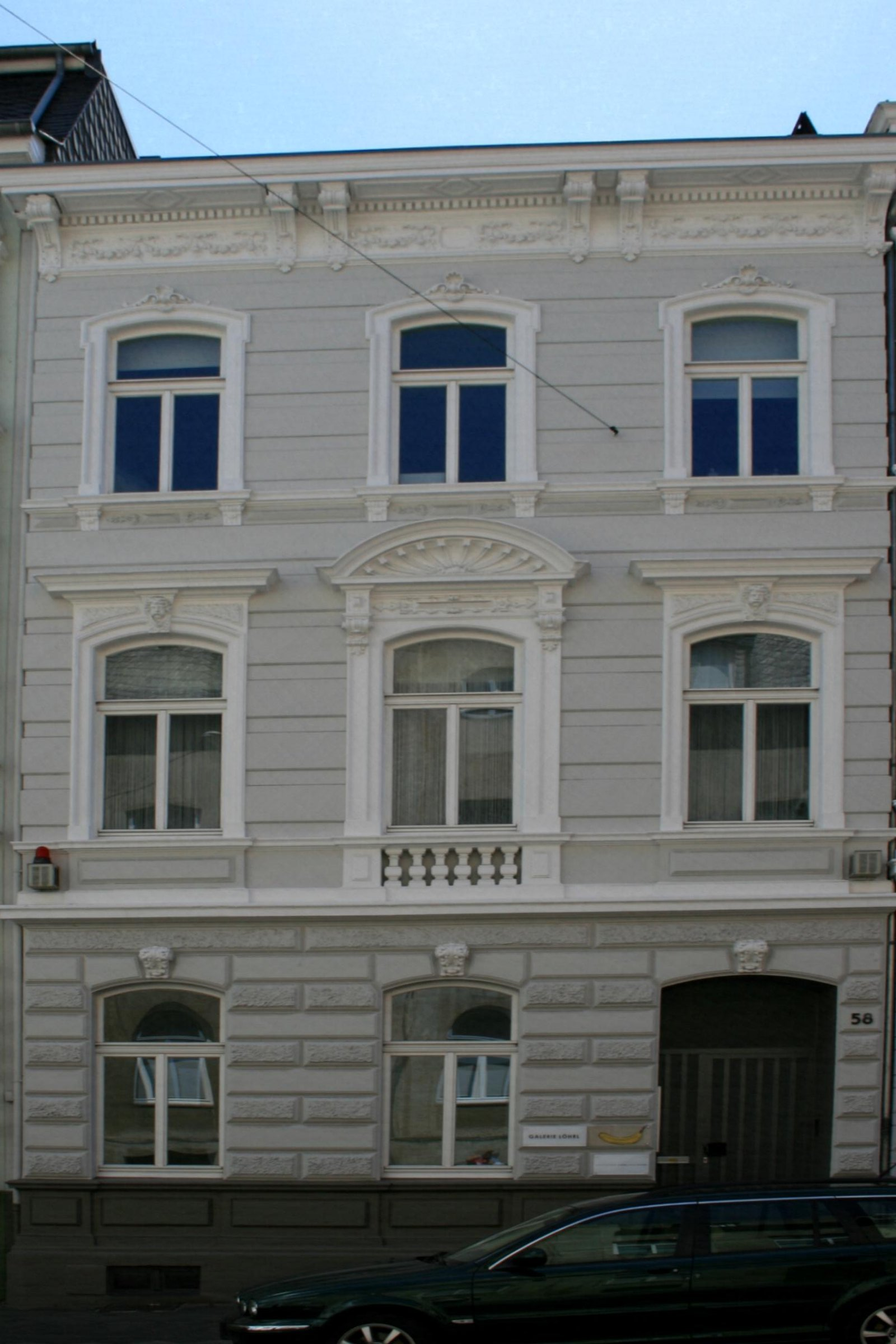 Cultural heritage monument No. K 048 in Mönchengladbach